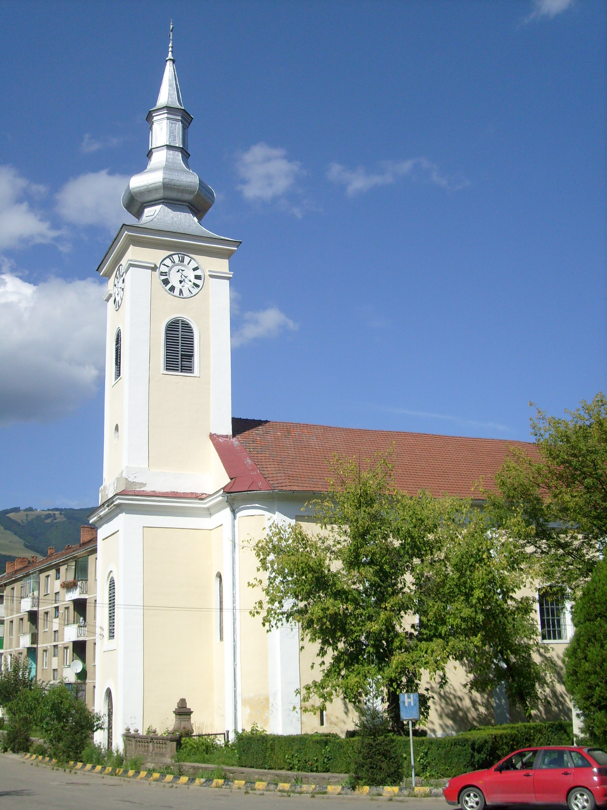 Roman-Catholic Church in Zlatna.